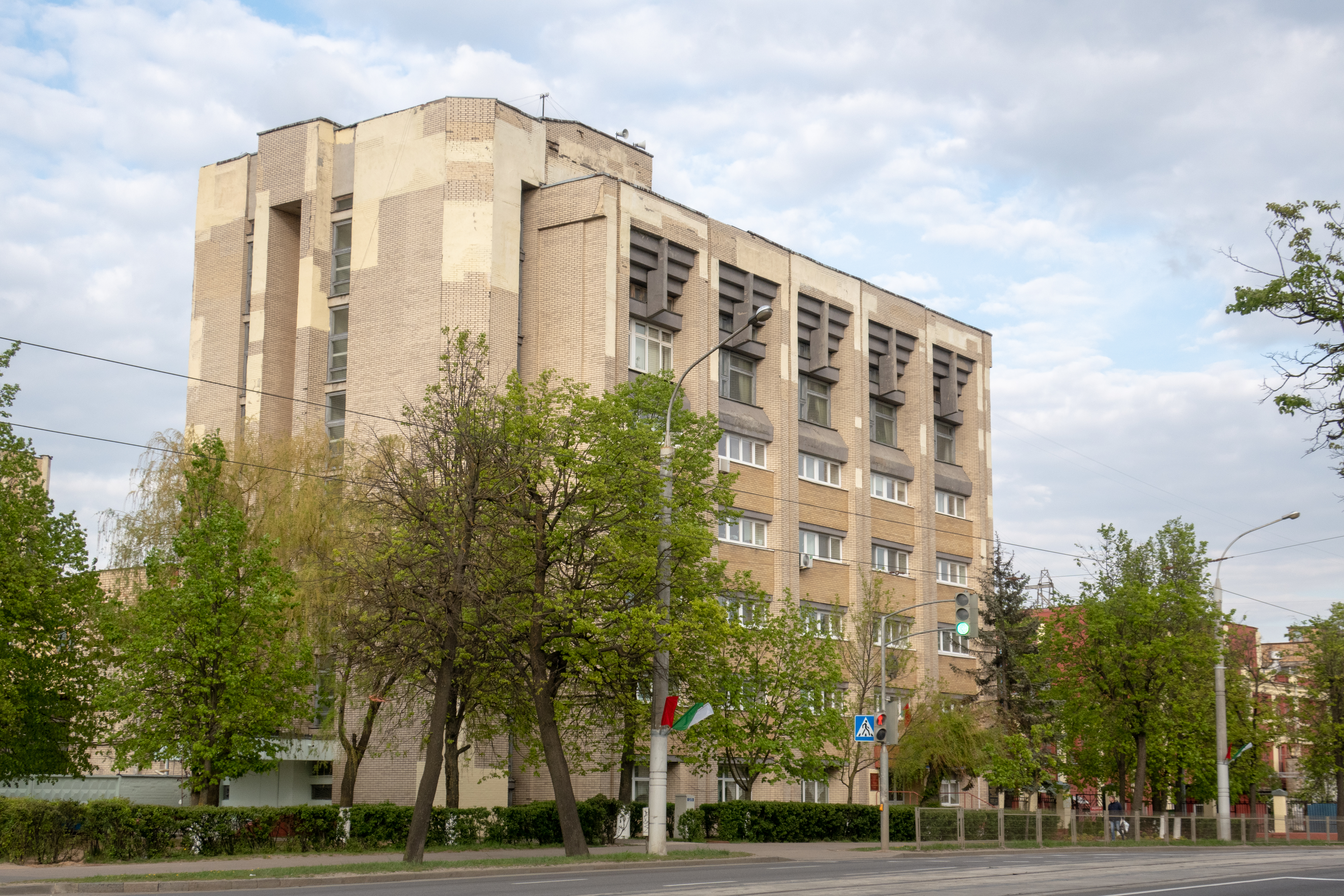 Minsk margarine factory on Kazlova street (Minsk, Belarus)